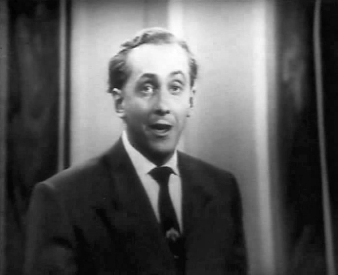 A screen capture of Hughie Green from the first episode of Double Your Money in 1955.